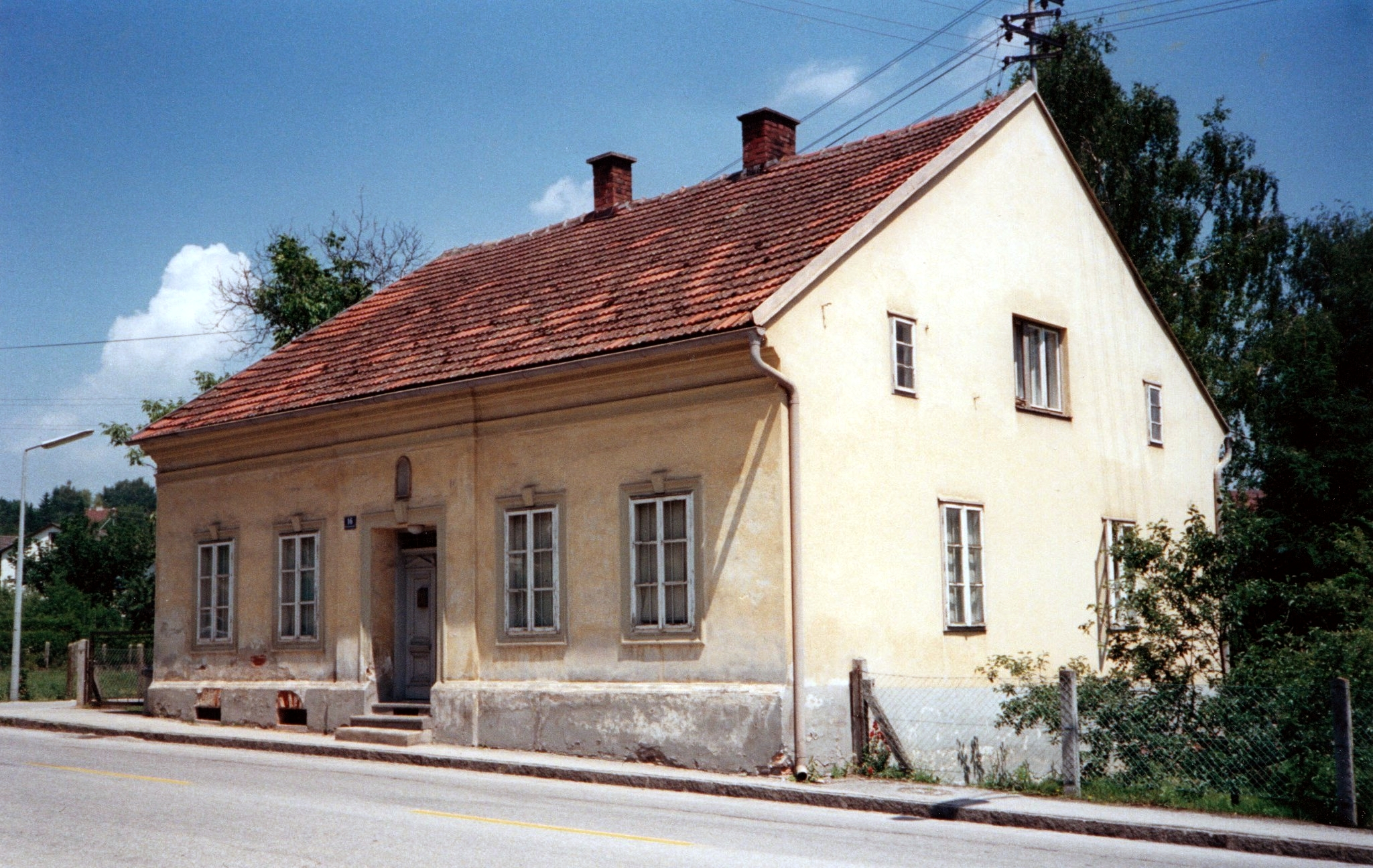 The house in which Adolf Hitler spent his early adolescence (c.1894).